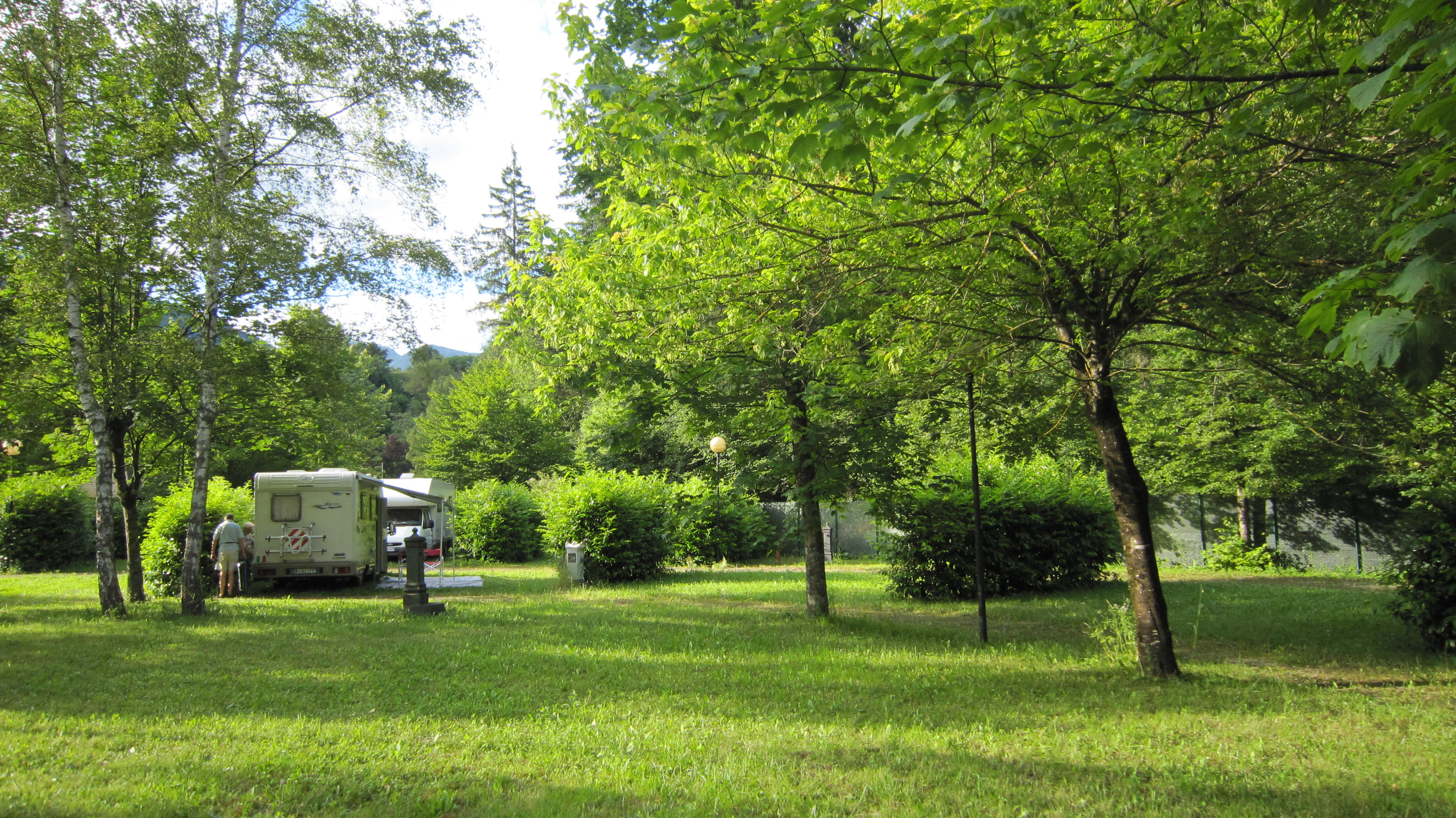 paularo saletti campeggio